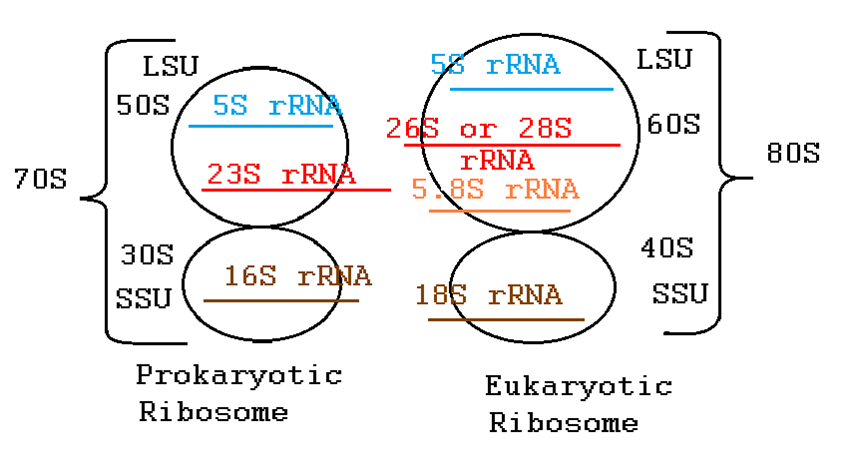 Ribosome rRNA composition for prokaryotic and eukaryotic rRNA